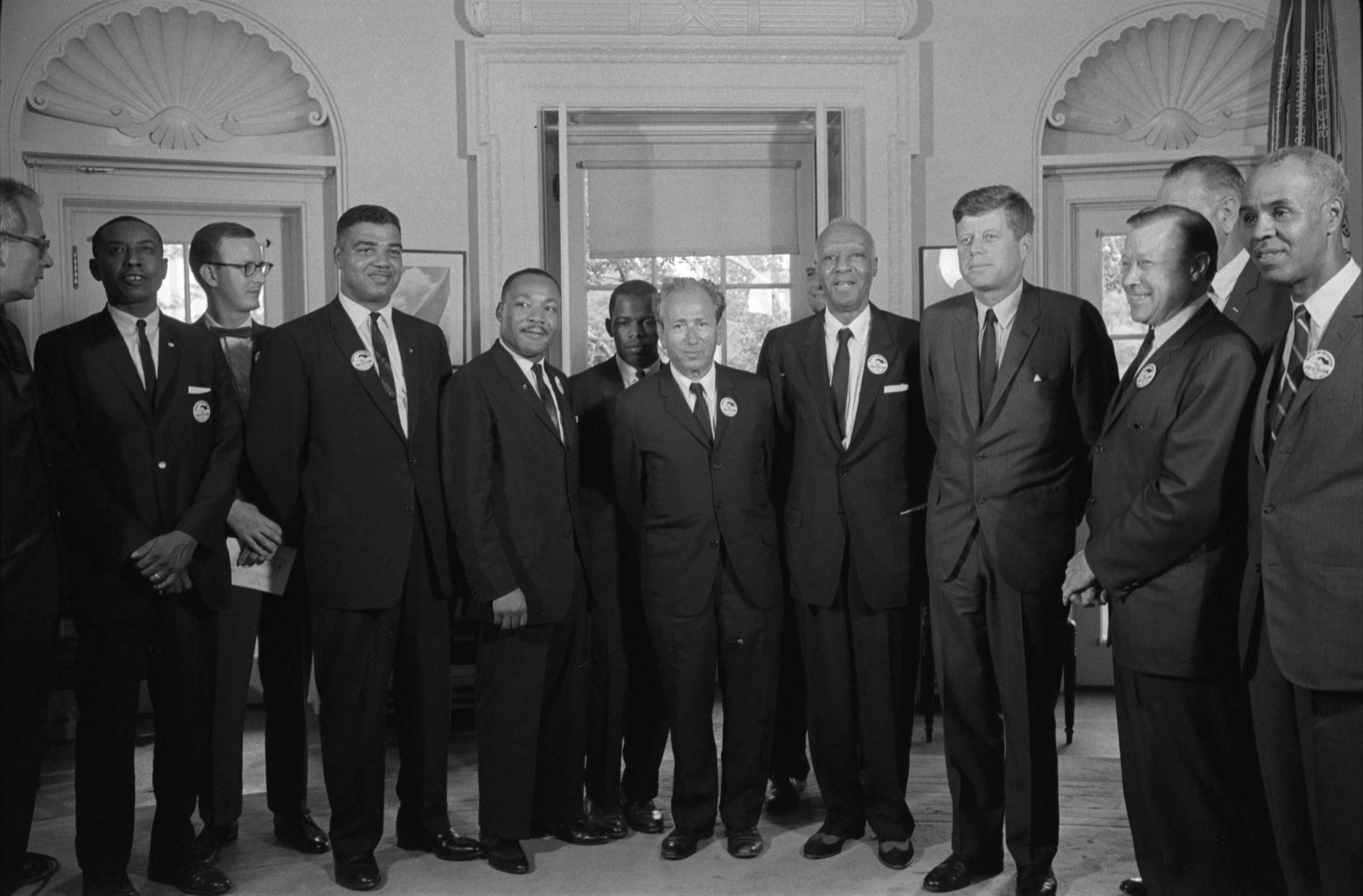 Photograph shows (left to right): Willard Wirtz (Secretary of Labor); Floyd McKissick (CORE); Mathew Ahmann (National Catholic Conference for Interracial Justice); Whitney Young (National Urban Leage); Martin Luther King, Jr. (SCLC); John Lewis (SNCC); Rabbi Joachim Prinz (American Jewish Congress); A. Philip Randolph, with Reverend Eugene Carson Blake partially visible behind him; President John F. Kennedy; Walter Reuther (labor leader), with Vice President Lyndon B. Johnson partially visible behind him; and Roy Wilkins (NAACP). Not visible: .